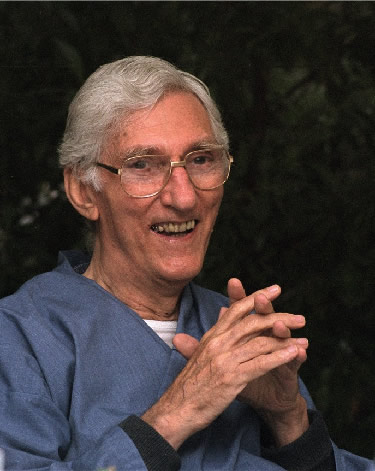 Author: Upekshaka.